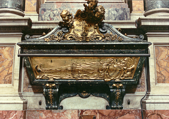 Tomb of Pope Pius V Santa Maria Maggiore, Rome. Sculptor: Pierre Le Gros the Younger, 1697-1698